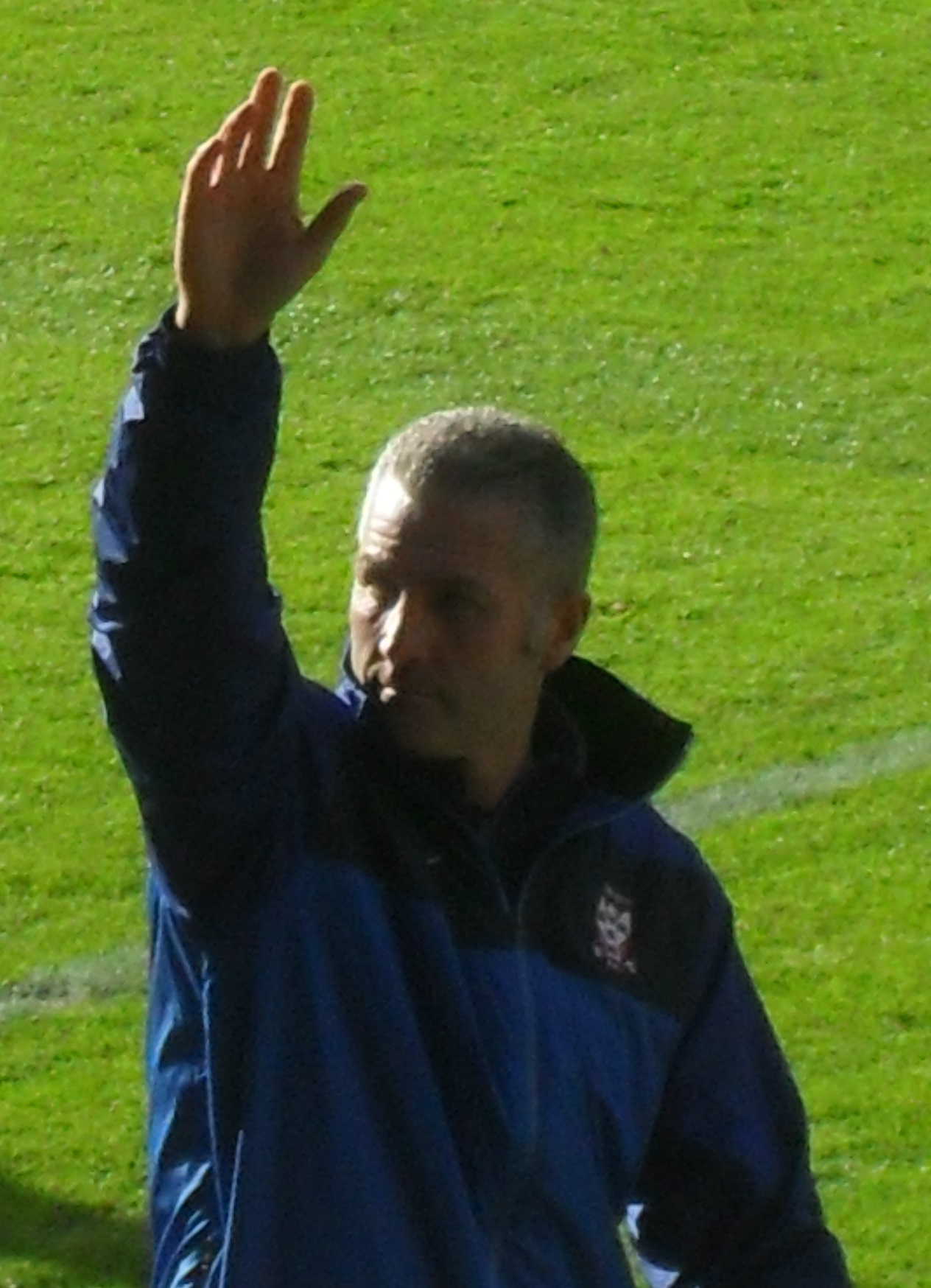 Gary Mills before York City's match against Bath City at Bootham Crescent, York on 16 October 2010